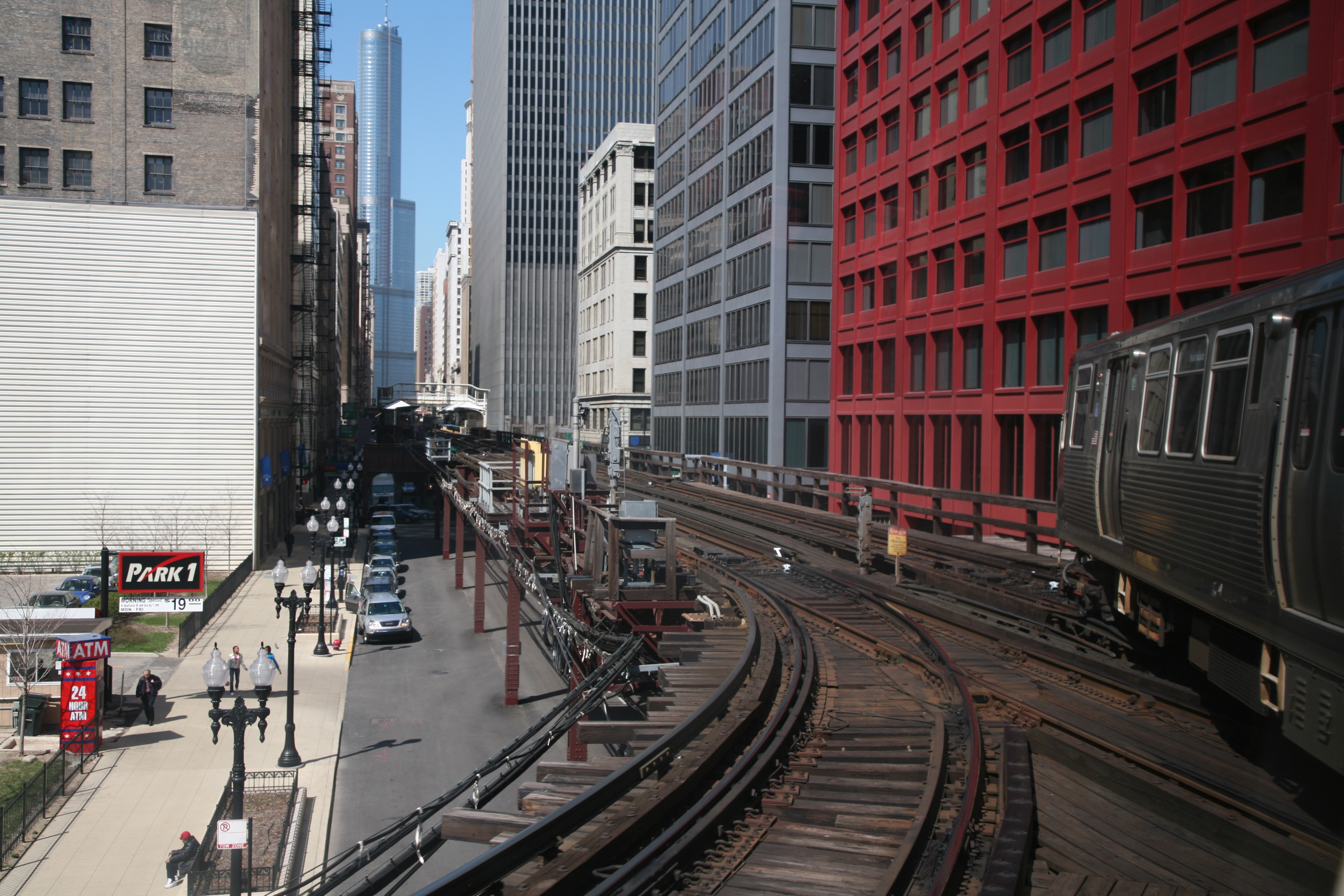 View from a Chicago "L" train at the south east corner of the loop, going counter clockwise